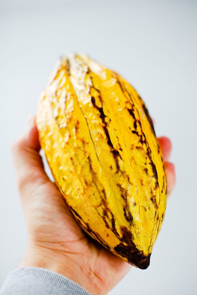 exploring and enjoying fresh harvested cacao, tasting the pulp and analyzing every part of this wonderfull 'food of the gods'